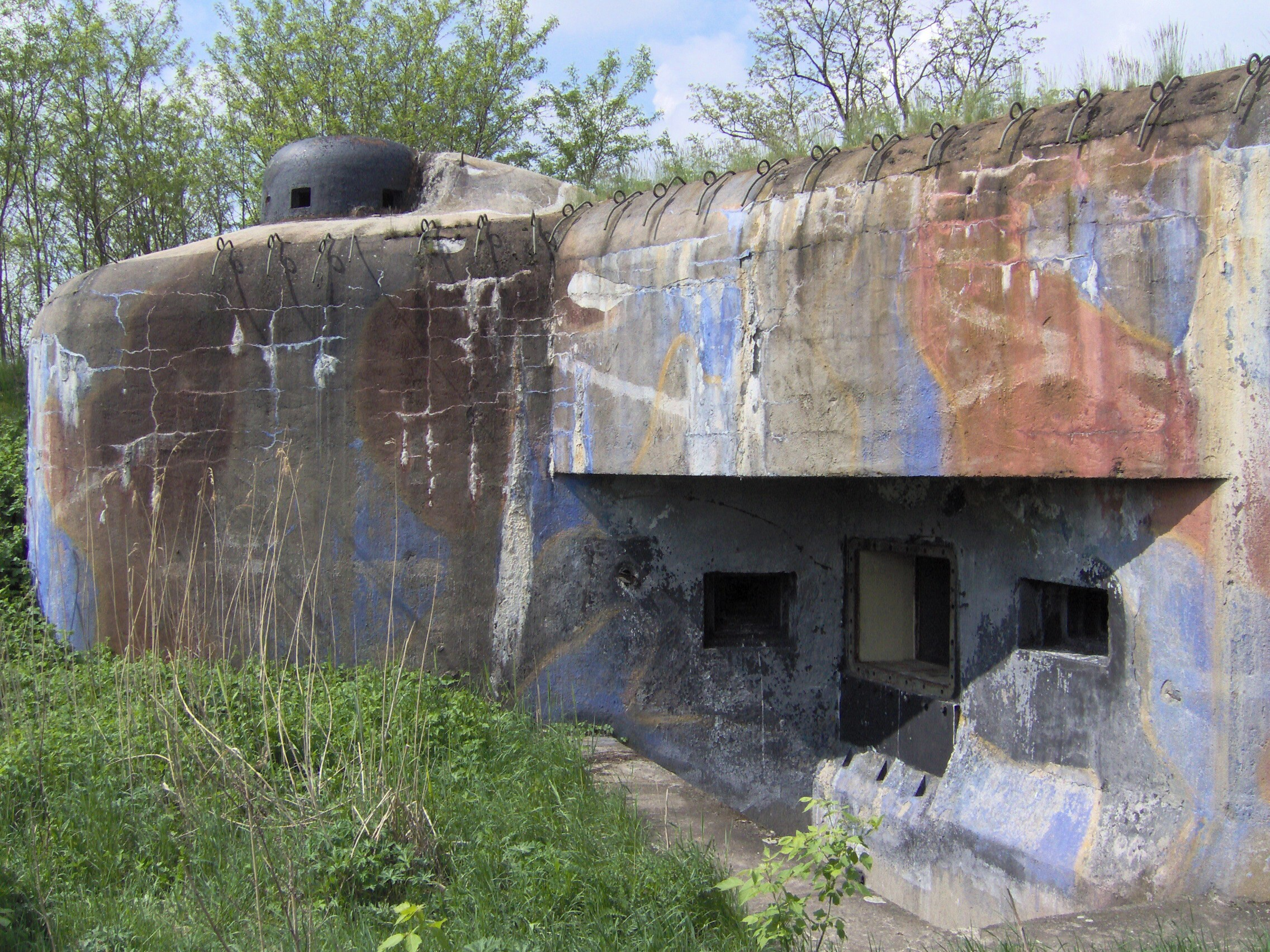 MJ-S 29 Svah infantry casemate, Břeclav District, Czech Republic